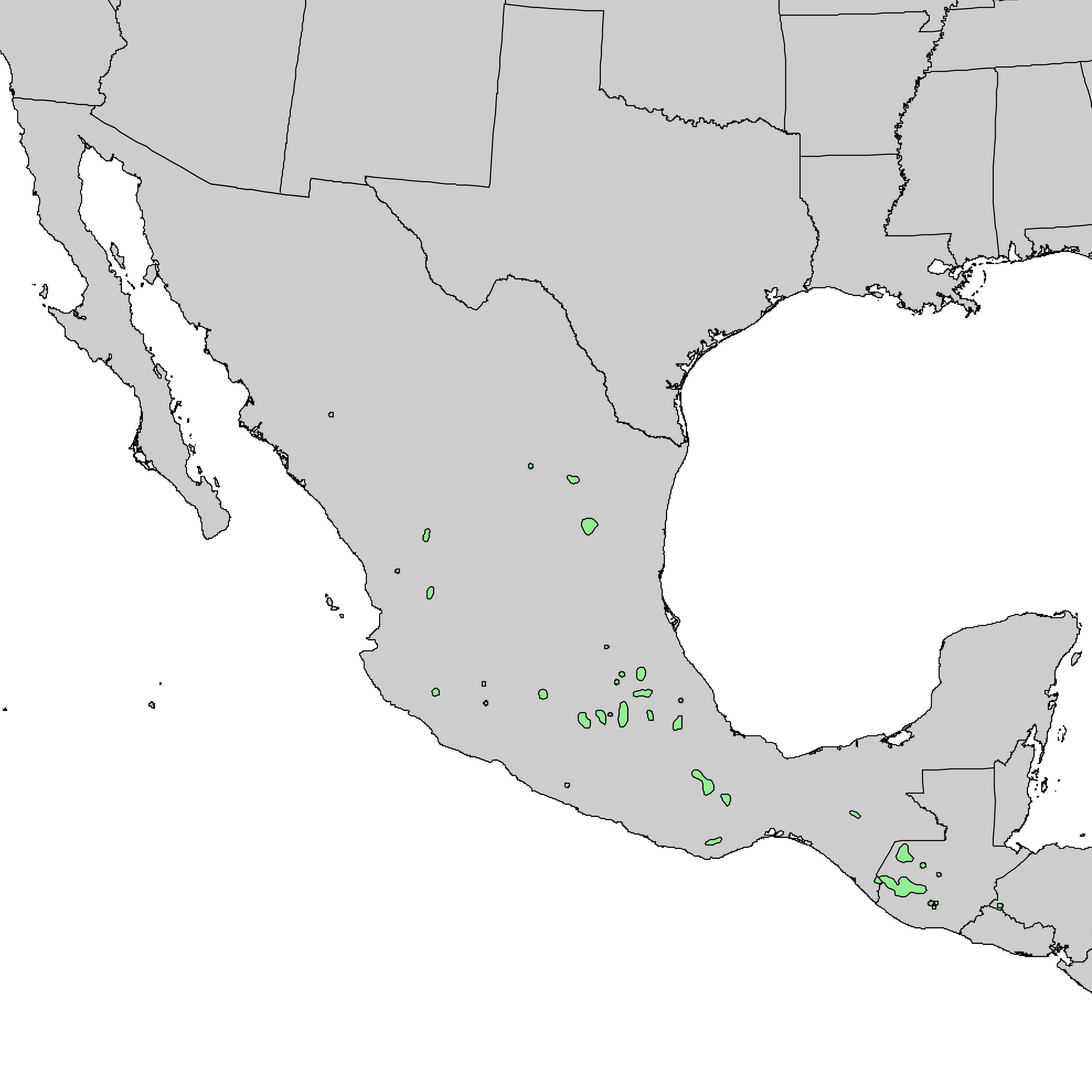 Natural distribution map for Pinus hartwegii